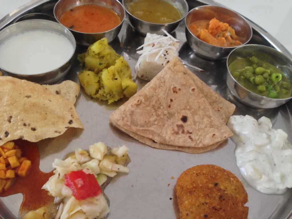 Authentic Thali, Typical Maharashtrian Thali.